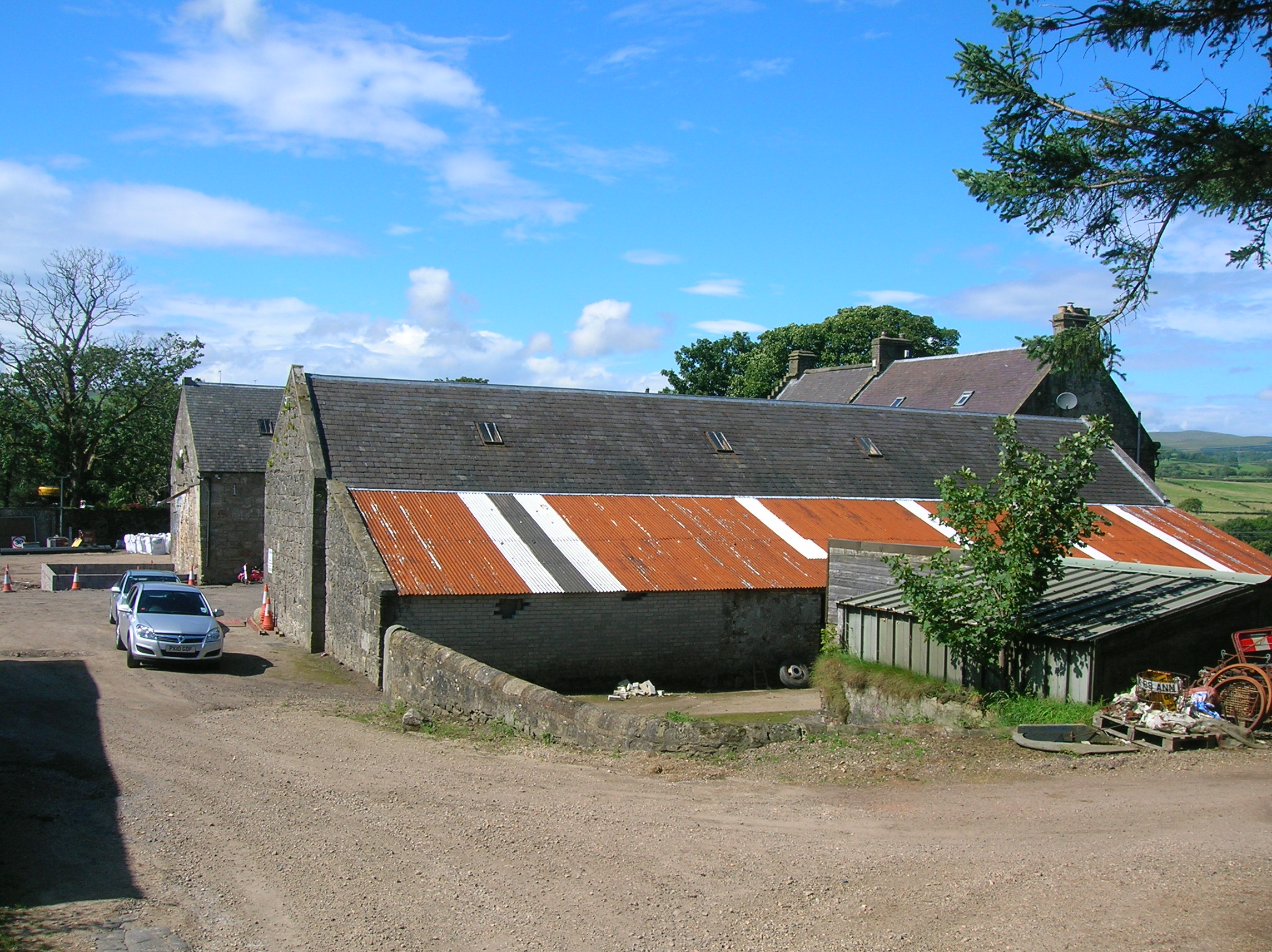 East Kersland farm and Saw Mill, Dalry, North Ayrshire, Scotland